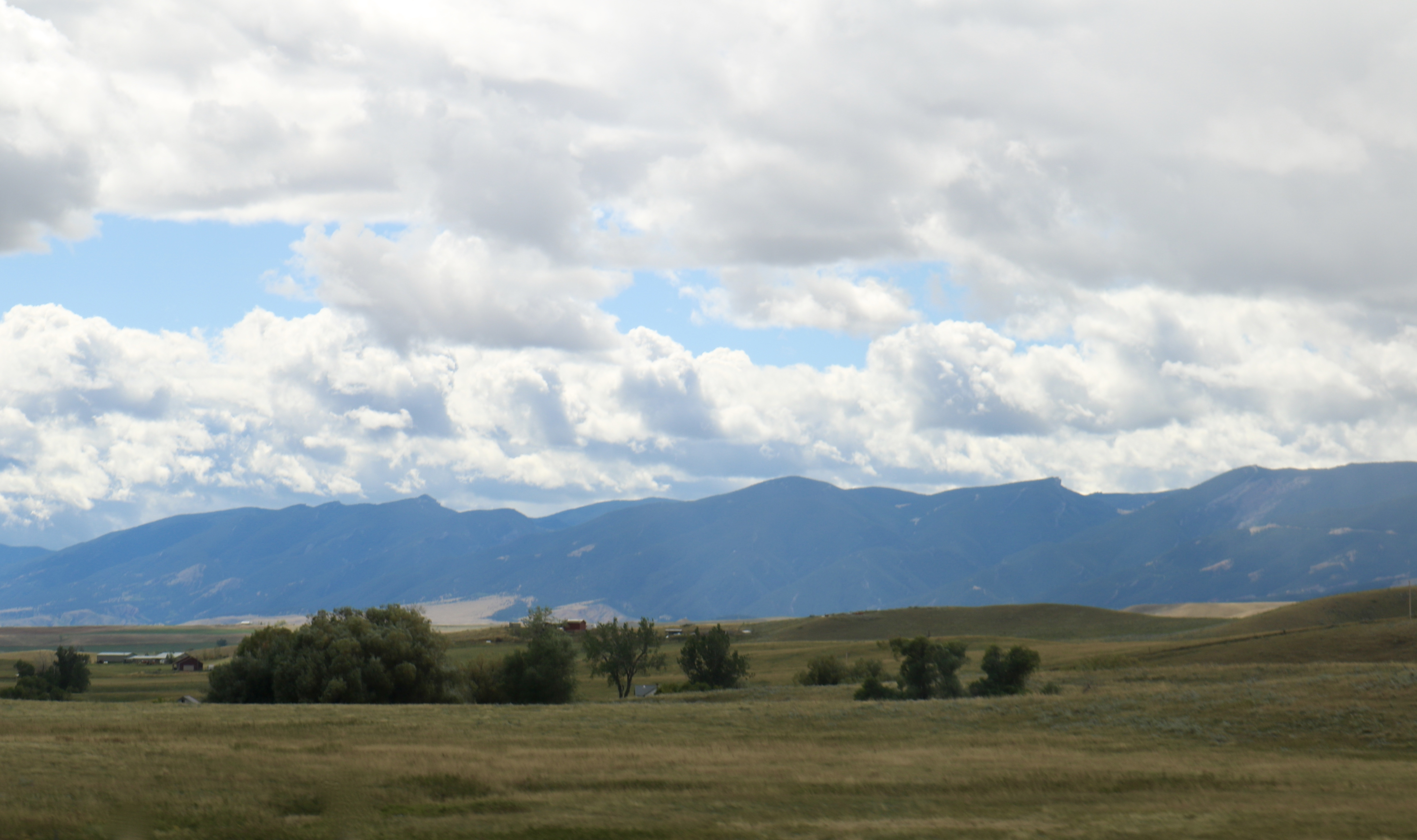 Big Horn Mountains, Wyoming, just over the Montana state line